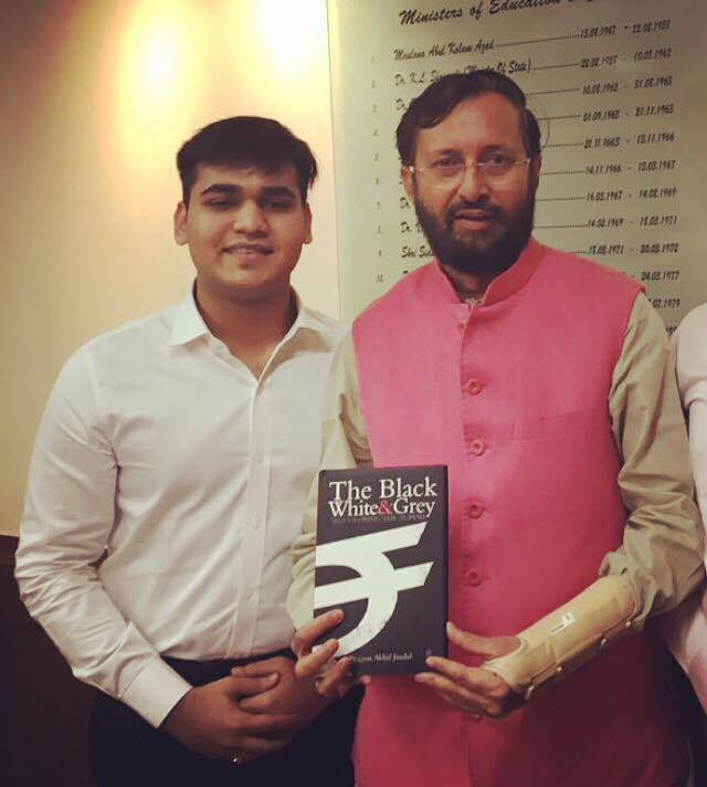 Shri Prakash Javadekar - Honourable HRD minister with Pragun Akhil Jindal